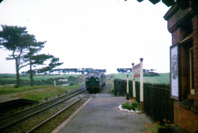 Shepherds Station. This railway linked Truro to Newquay, 'Shepherds' is a nearby farm. The line closed a few weeks after this picture was taken.